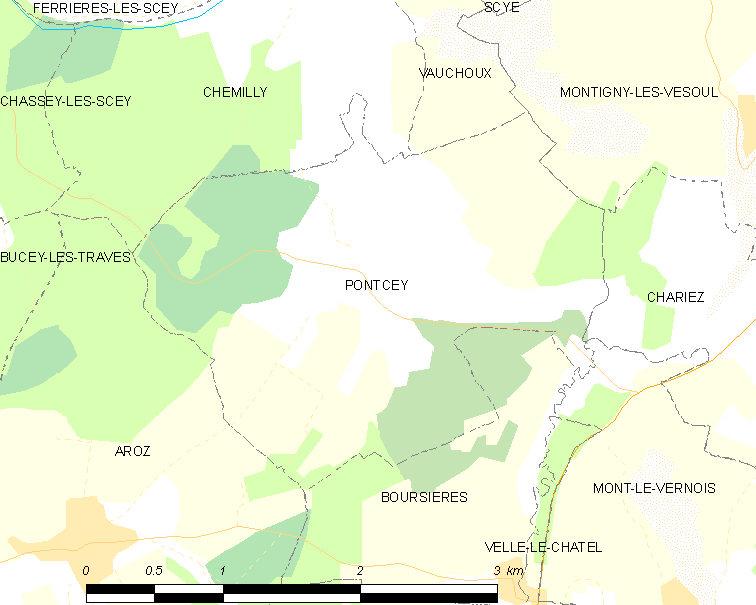 Map of French municipality